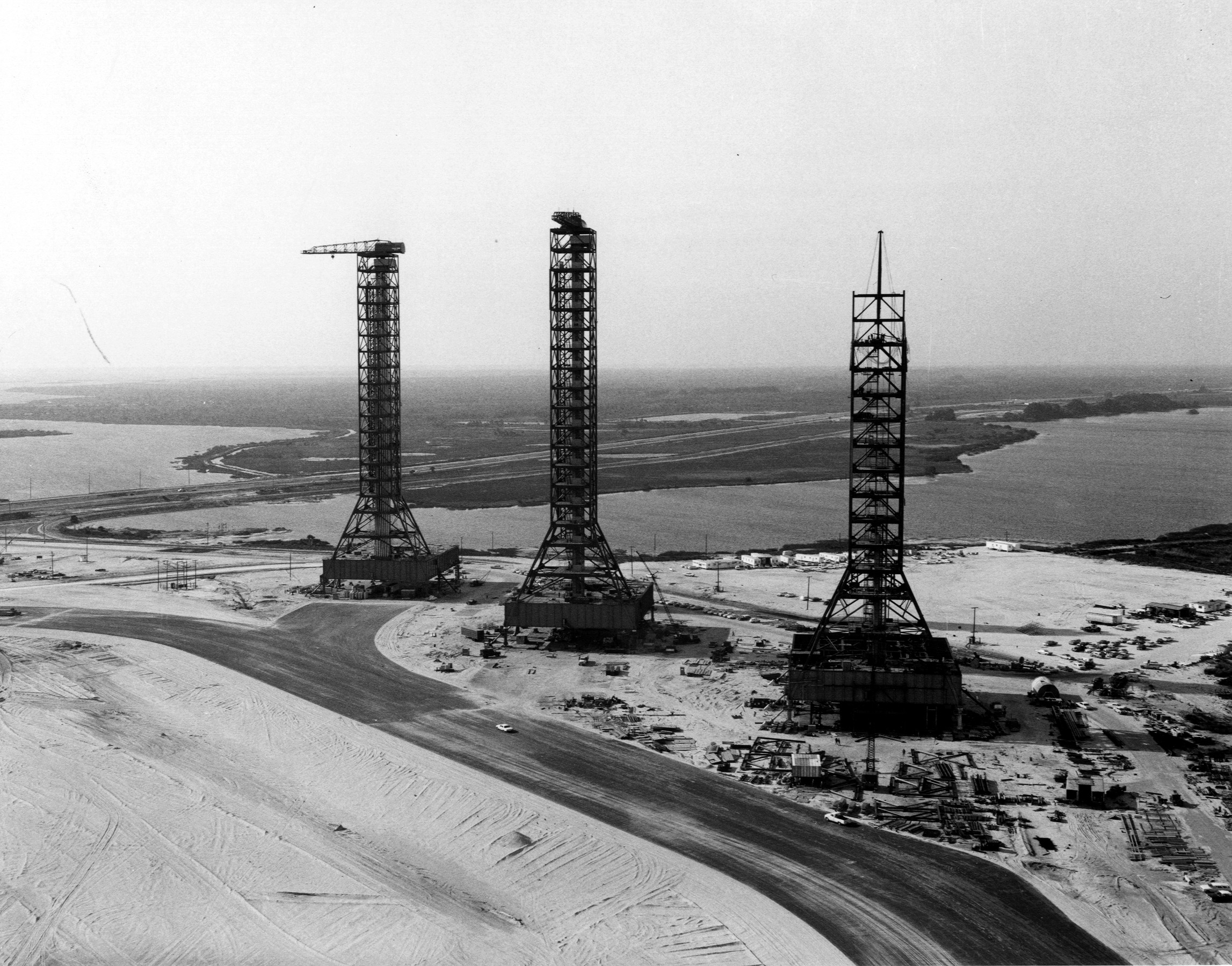 Aerial view of the Apollo-era Mobile Launchers, under construction at Kennedy Space Center.